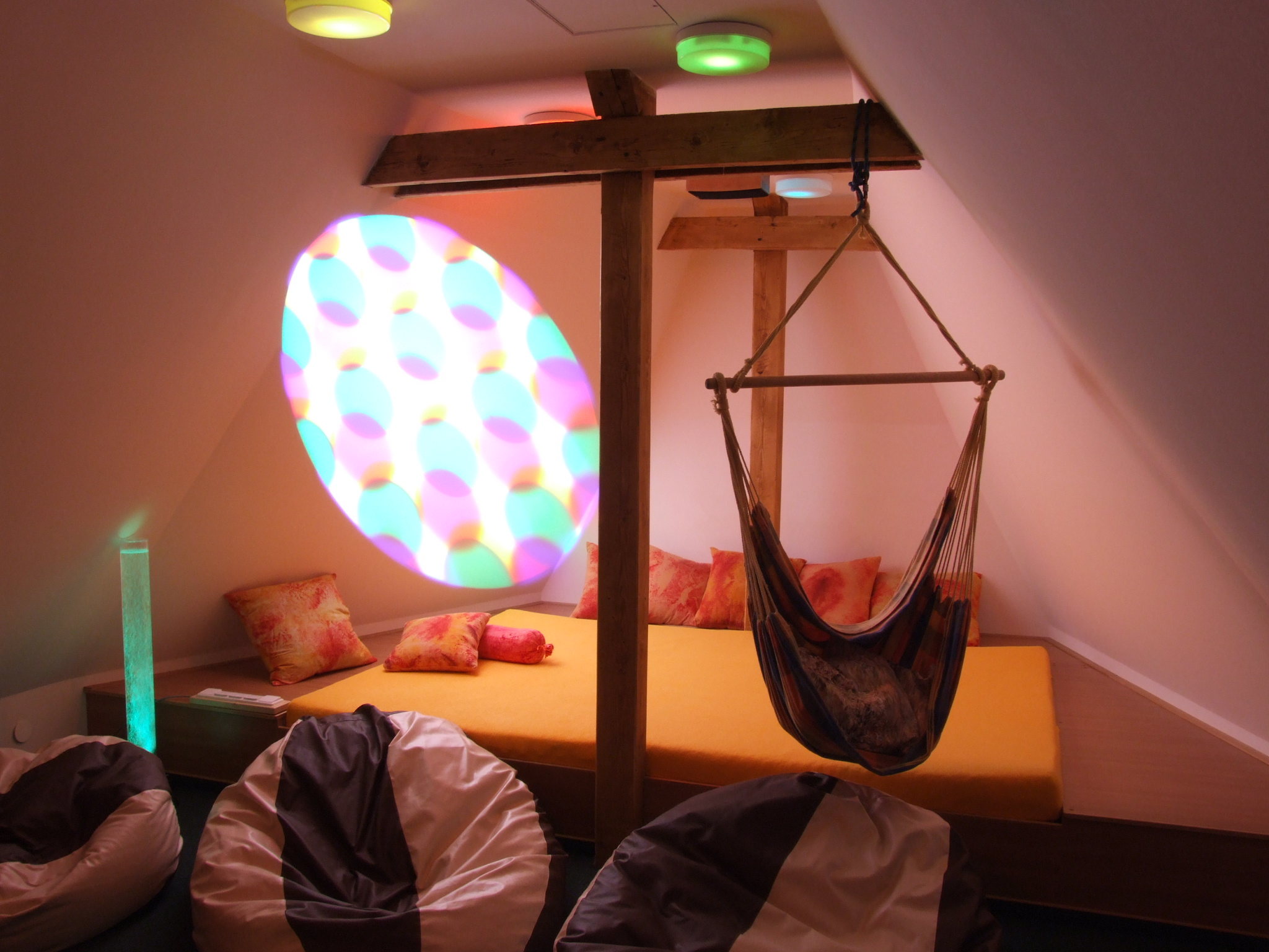 Snoezeren v podkroví nad kaplí, rok 2006.